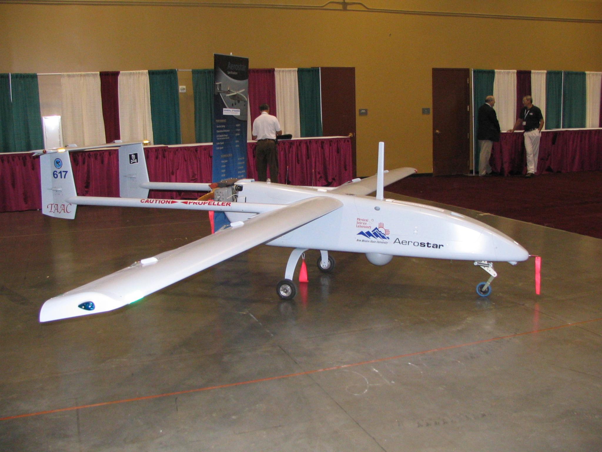 Aerostar in the AUVSI convention